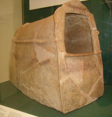 Ossarium, Ghassul culture, around 3500 BC (Palestine); now in British Museum